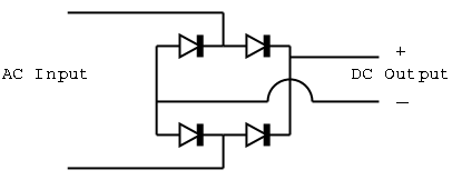 Diagram of bridge rectifier